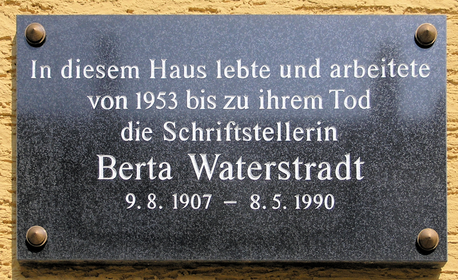 Memorial plaque, Berta Waterstradt, Altheider Straße 21, Berlin-Adlershof, Germany Koordinate:52°26′15″N 13°32′33″E / 52.4375°N 13.5425°E